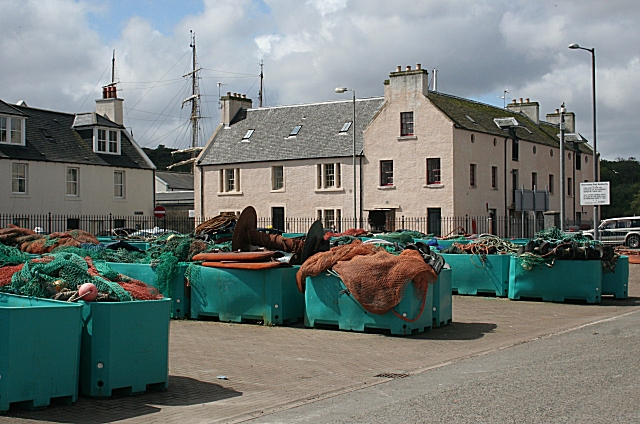 Net Storage Nets and fishing gear are stored in bins, keeping the quay tidy. The eighteenth century buildings house harbourside offices.